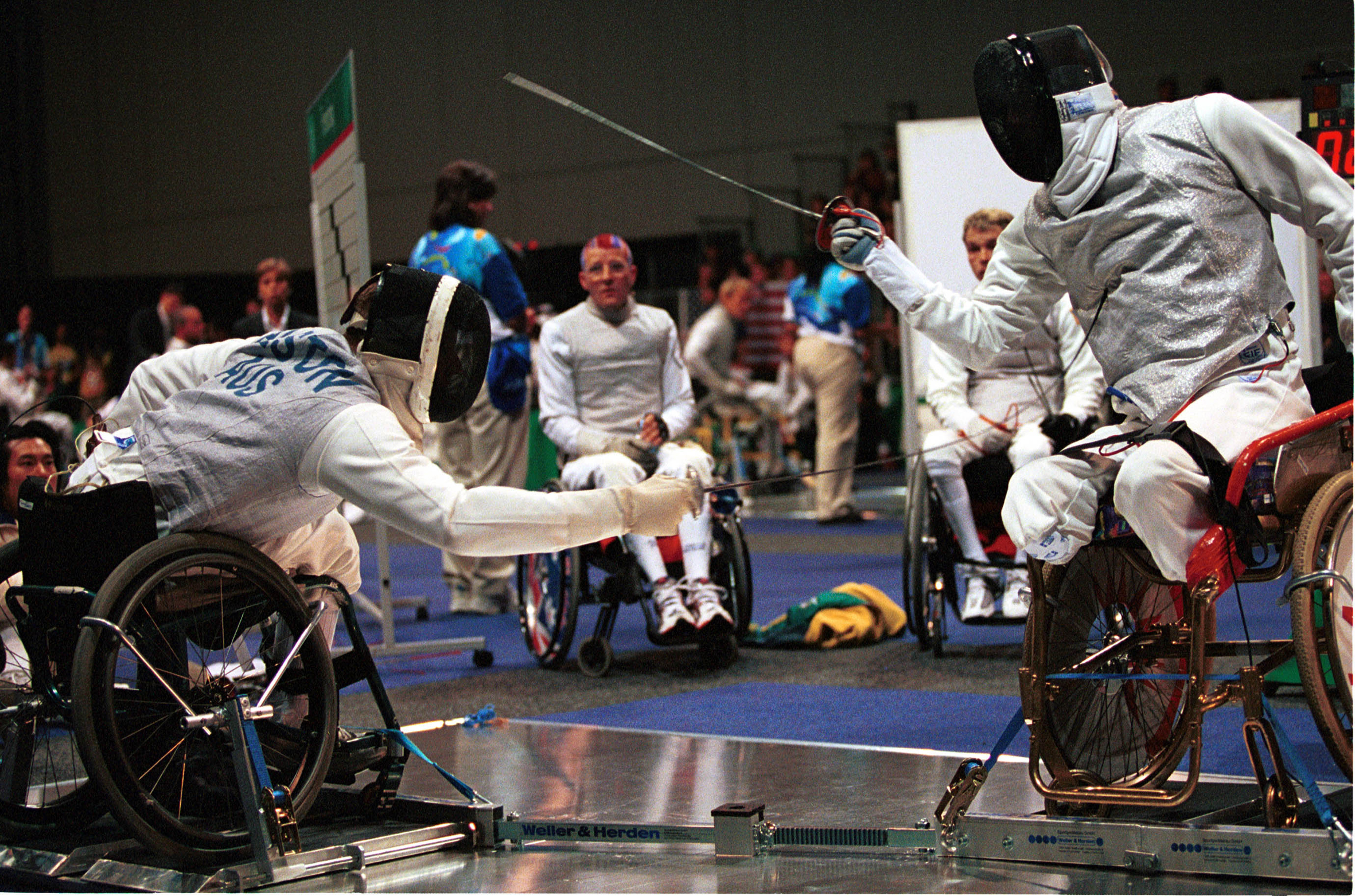 Australian wheelchair fencer Michael Alston during 2000 Sydney Paralympic Games match